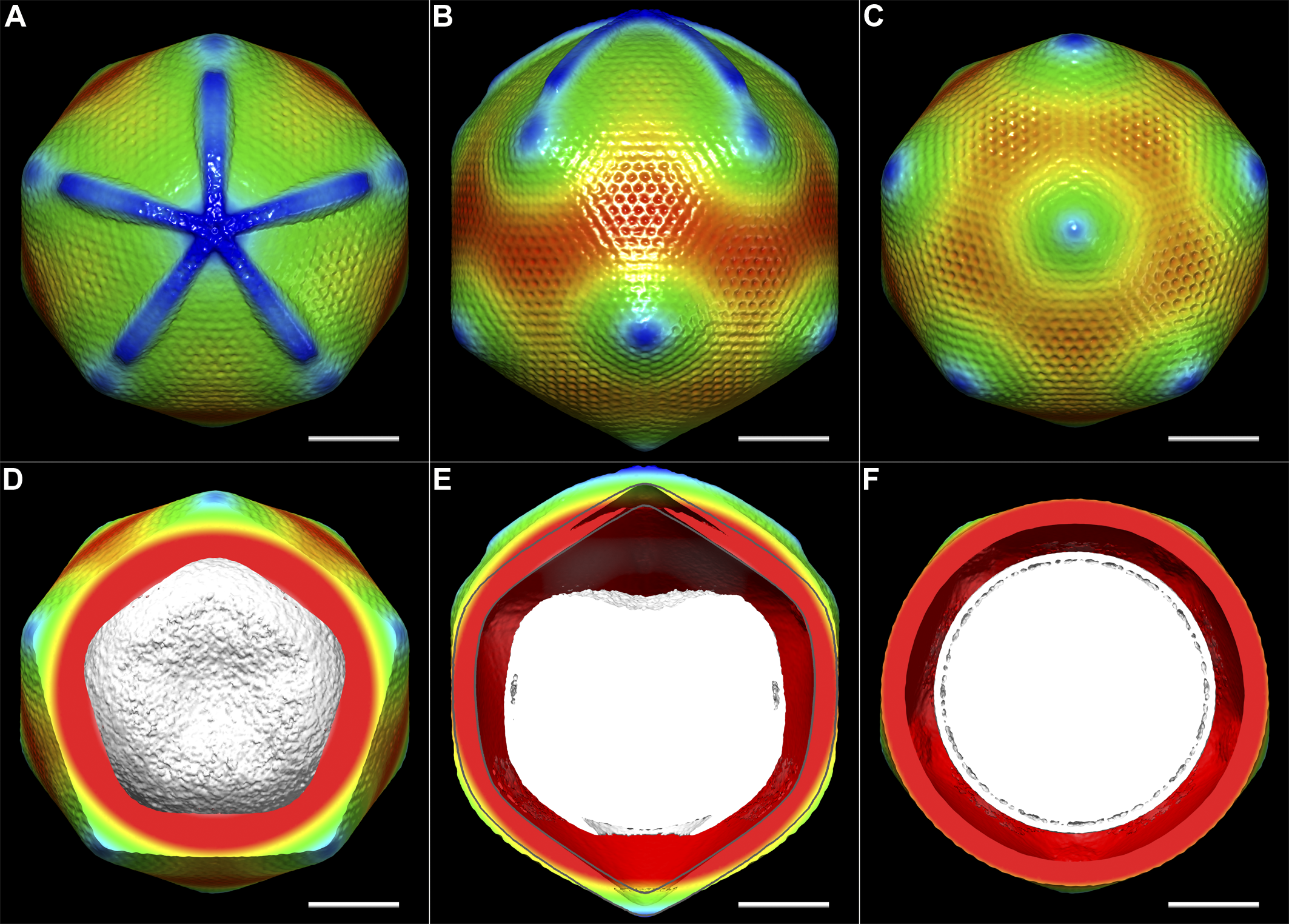 CryoEM Reconstruction of Mimivirus Applying Only 5-fold Symmetry Averaging A) – C) Surface-shaded rendering of cryoEM reconstruction of untreated Mimivirus D) The starfish-associated vertex was removed to show the internal nucleocapsid E) Central slice of the reconstruction looking from the side of the particle F) Central slice of the reconstruction looking along the 5-fold axis from the starfish-shaped feature The coloring is based on radial distance from the center of the virus Gray is from 0 to 1,800 Å Red from 1,800 to 2,100 Å Rainbow coloring from red to blue between 2,100 and 2,500 Å The scale bars in all panels represent 1,000 Å